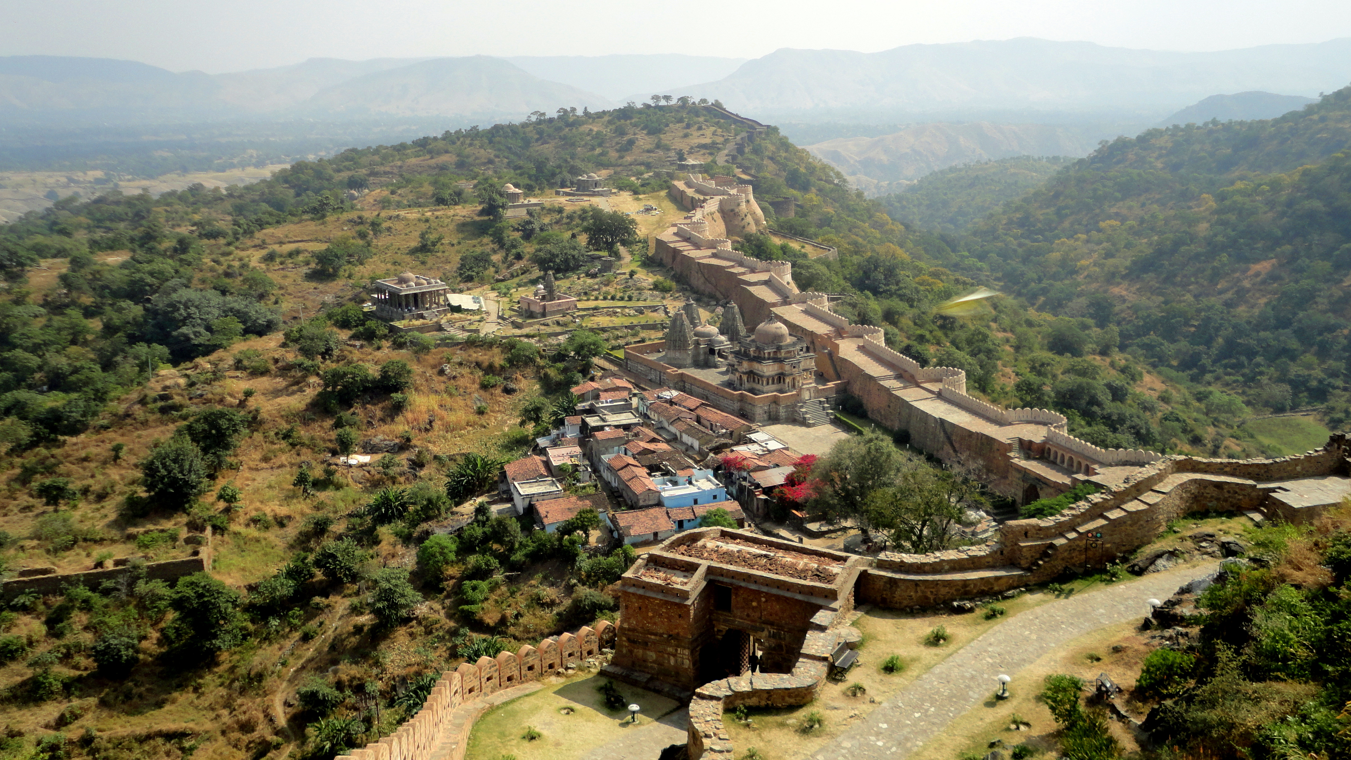 Fort of Kumbhalgarh as a whole